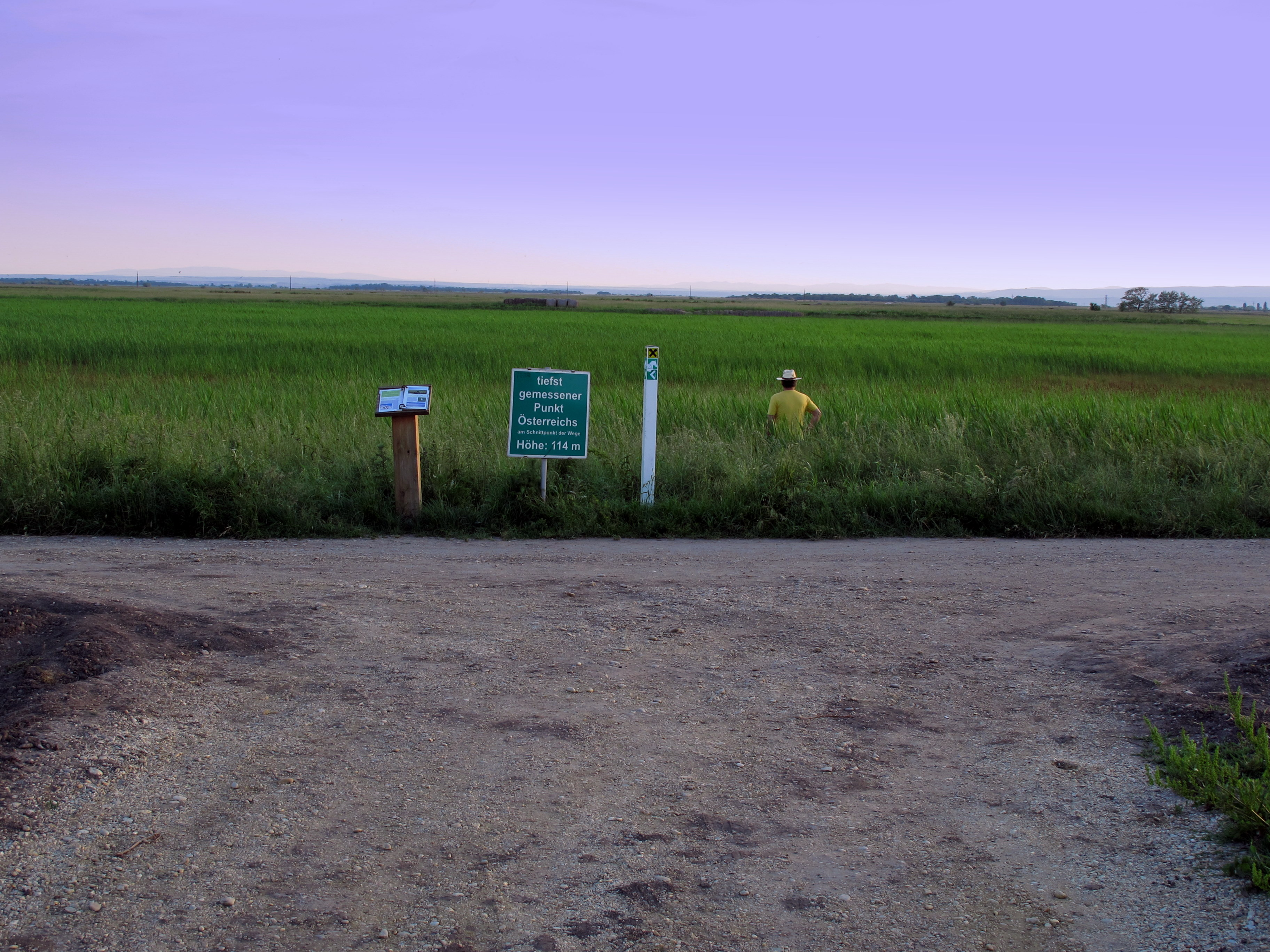 Signpost for the lowest measuring point in Austria in the community Apetlon at Lake Neusiedl near Vienna / Austria / European Union. Beside the sign is an information column with notes on the flora and fauna of the environment. View towards the southwest. As can be seen on the person in the picture, the area falls in the swamp next to the measuring point from a little deeper. With a visit from mid-May, a protection against mosquitoes is recommended.